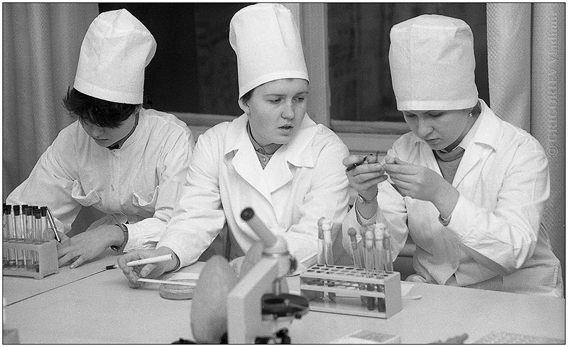 Students with test tubes and microscope, c. 1980-1990.